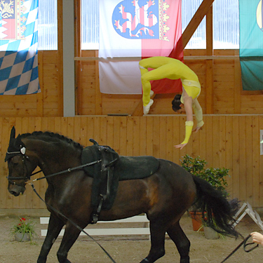 Simone Wiegele - Deutsche Meisterschaft 2009